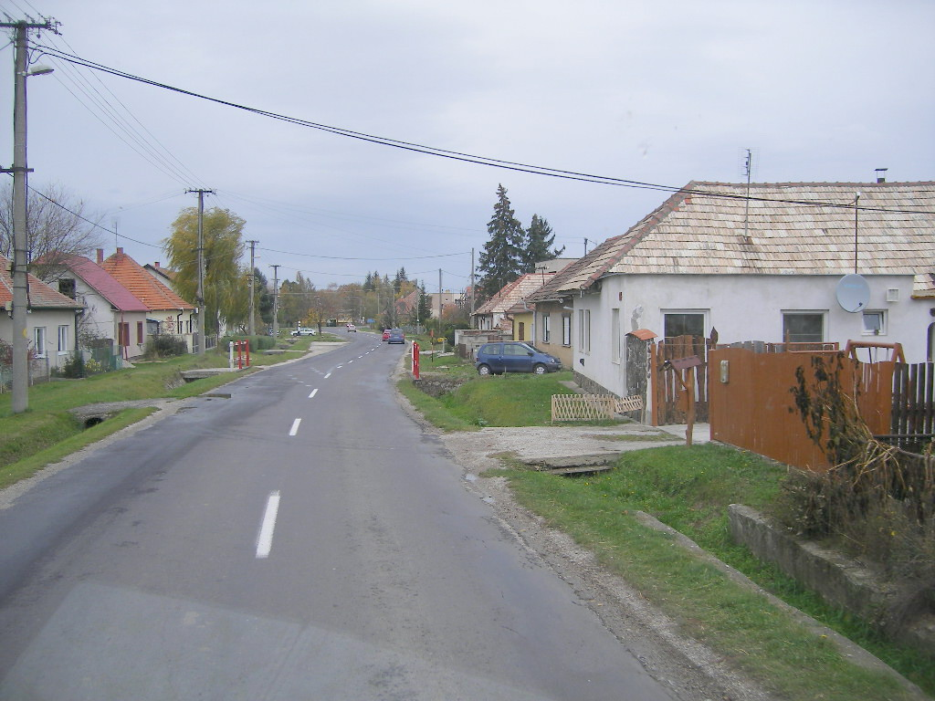 Dolné Lefantovce - Route 593